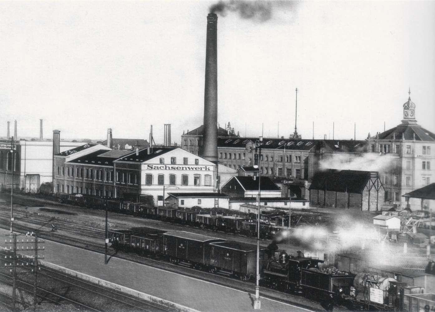 „Sachsenwerk“: An electric machinery plant in Niedersedlitz (since 1954 a quarter of Dresden), Germany around 1900.